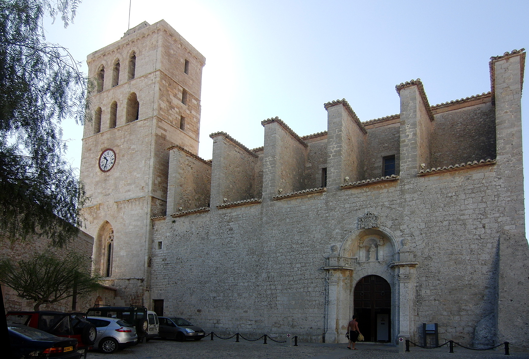 Ibiza cathedral, 24th August 2010